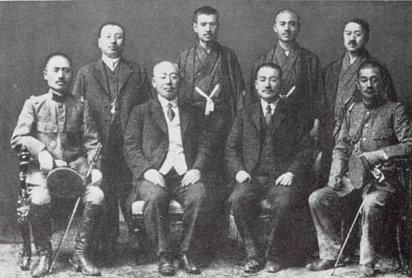 The japanese spies and diplomats Shigeru Honjo (lower row, first from left), Banzai Rihachiro (lower row, second from left), Doihara Kenji (upper row, fourth from left) and others